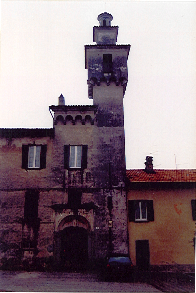 Bizzozero